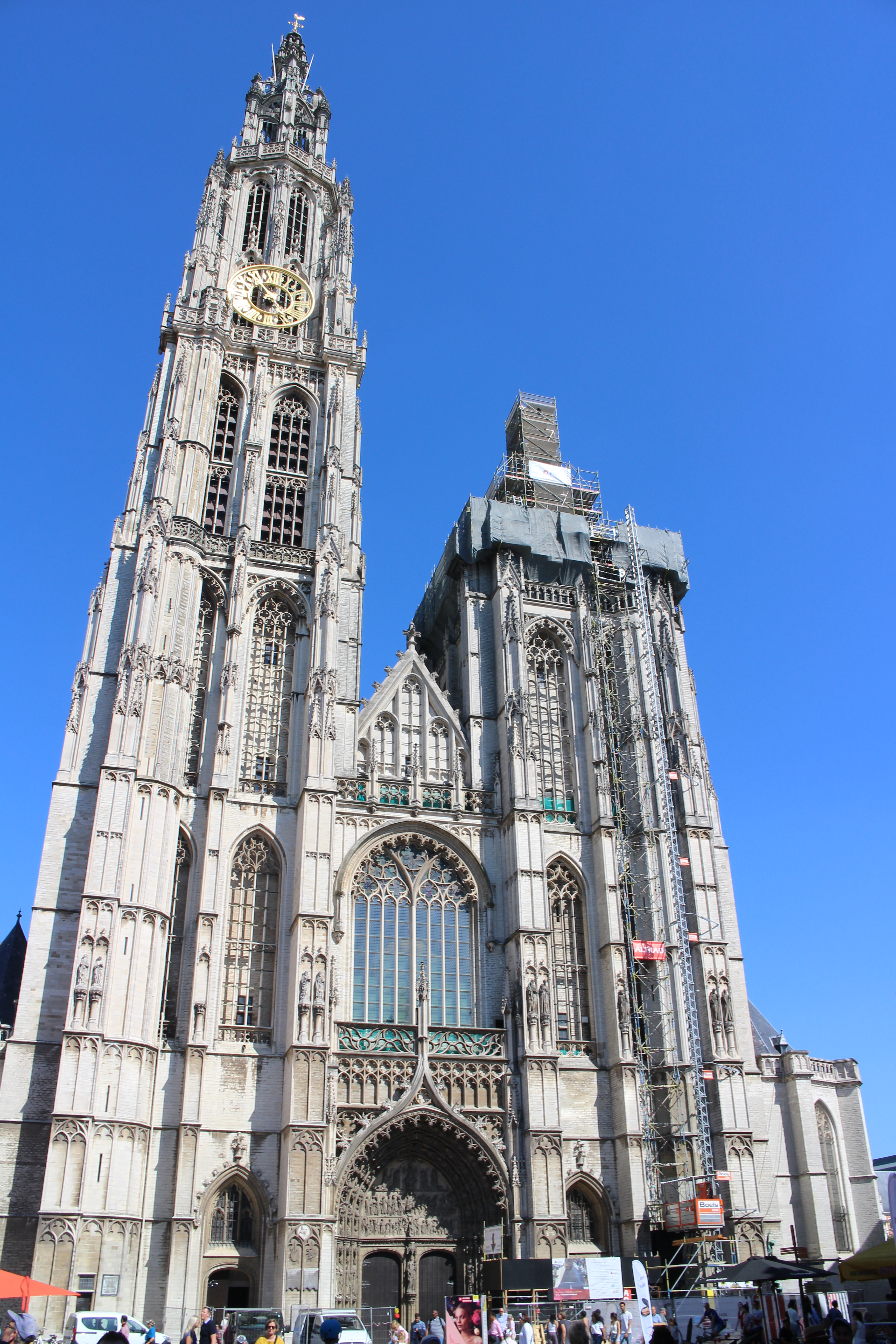 Exterior of Onze-Lieve-Vrouwekathedraal (Antwerp)